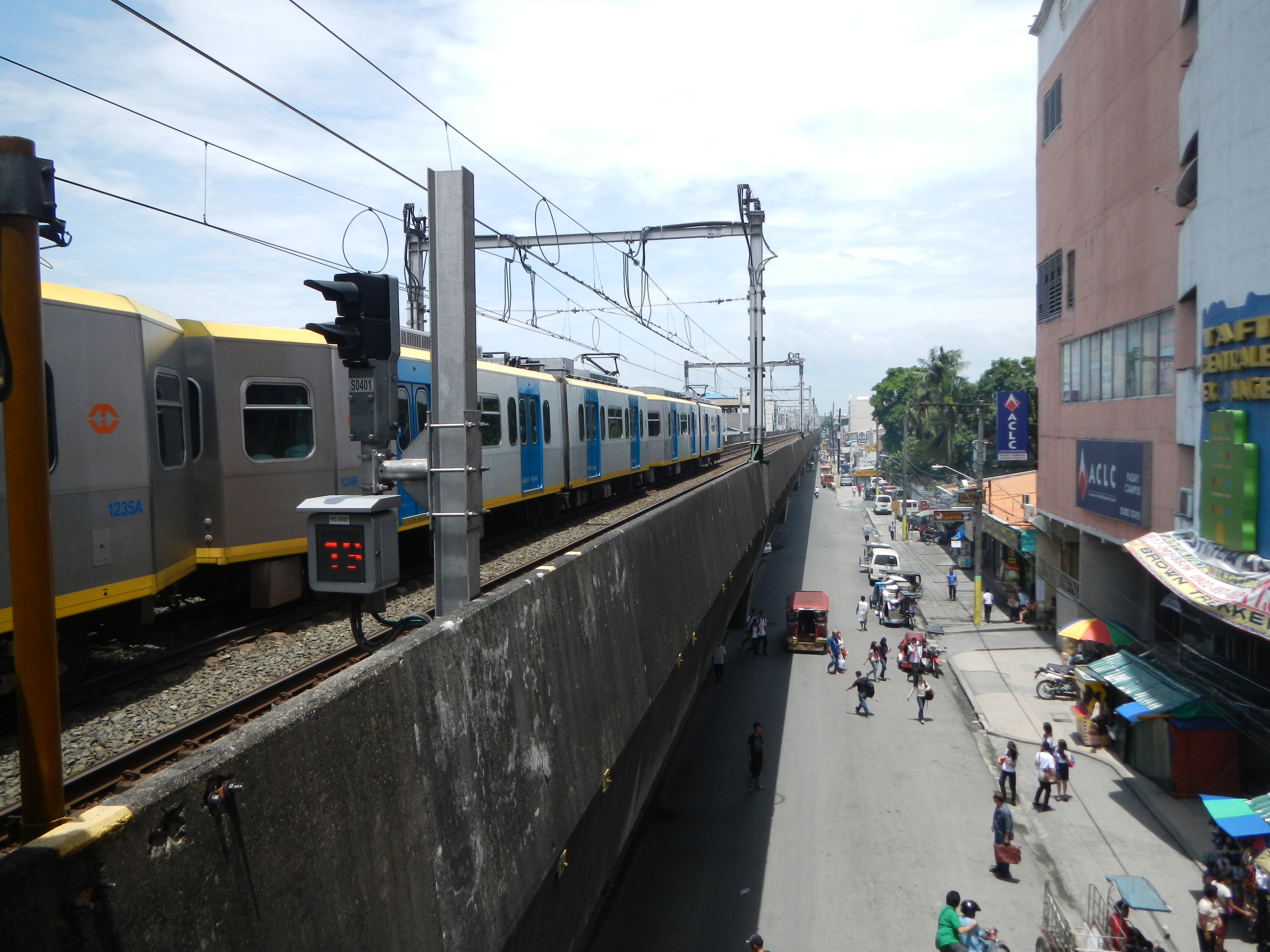 View from and around Gil Puyat LRT Station[1]Gil Puyat Avenue (Buendia) Pasay[2]